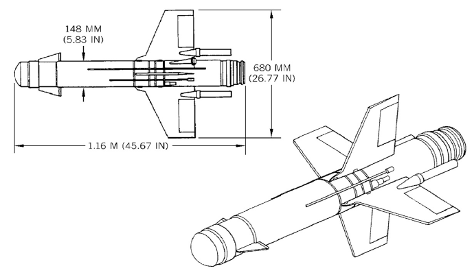 An AT-2A Swatter missile. from a pdf document on